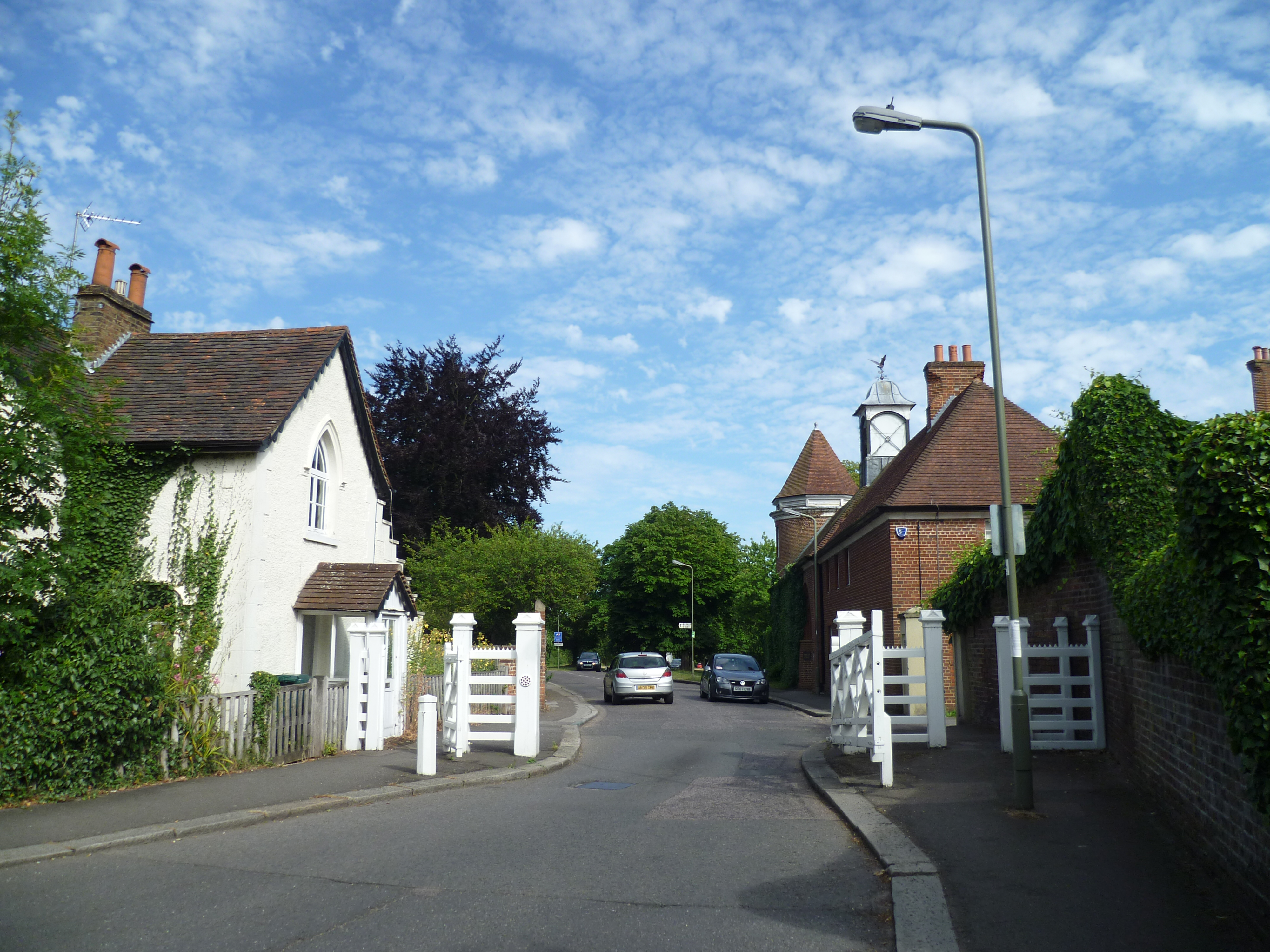 Monken Hadley gateway 2